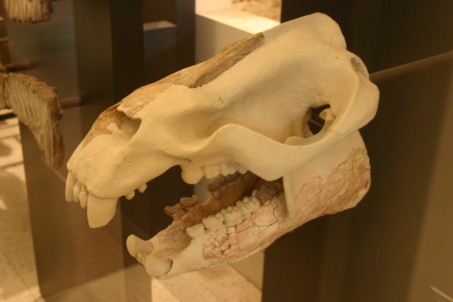 Partial fossil skull with reconstruction of Moeritherium andrewsi.